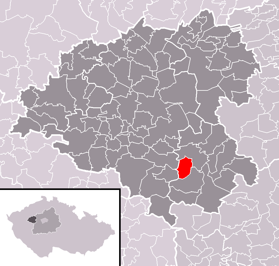 Location of Nezabudice municipality within Rakovník District and (identical) administrative area of Rakovník as a Municipality with Extended Competence.